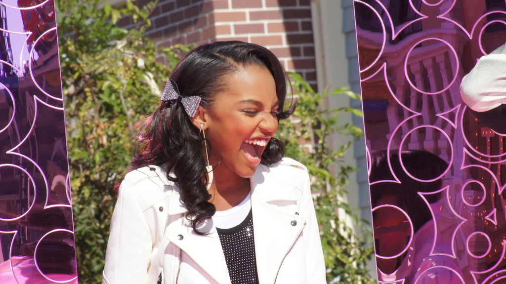 China Anne Mcclain performing at Disney Parks Christmas Day Parade 2011.